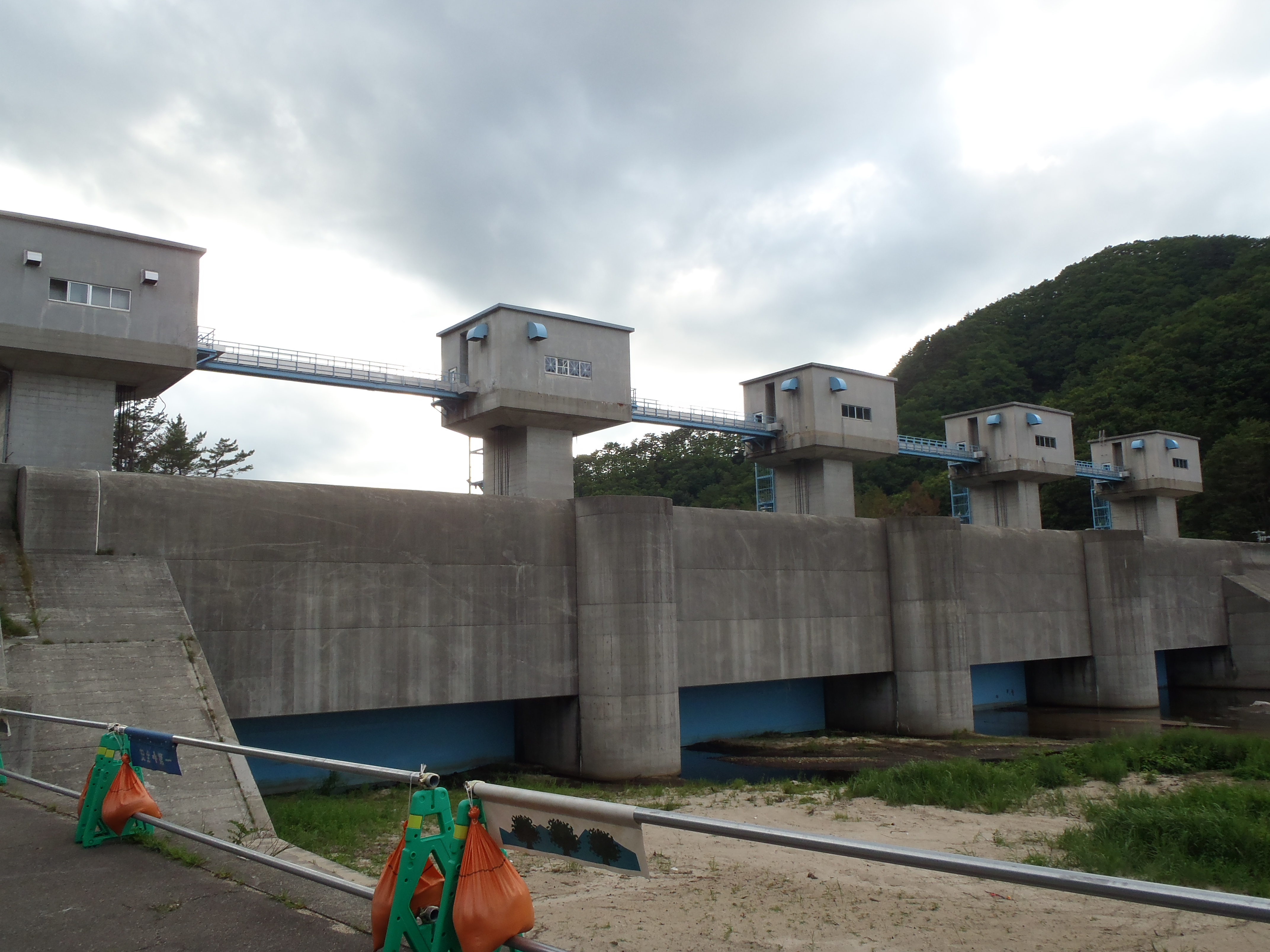 The sea sida of the Fudai Floodgate in Fudai Village, Iwate Prefecture, Japan, after the tsunami caused by the Great East Japan Earthquake in 2011